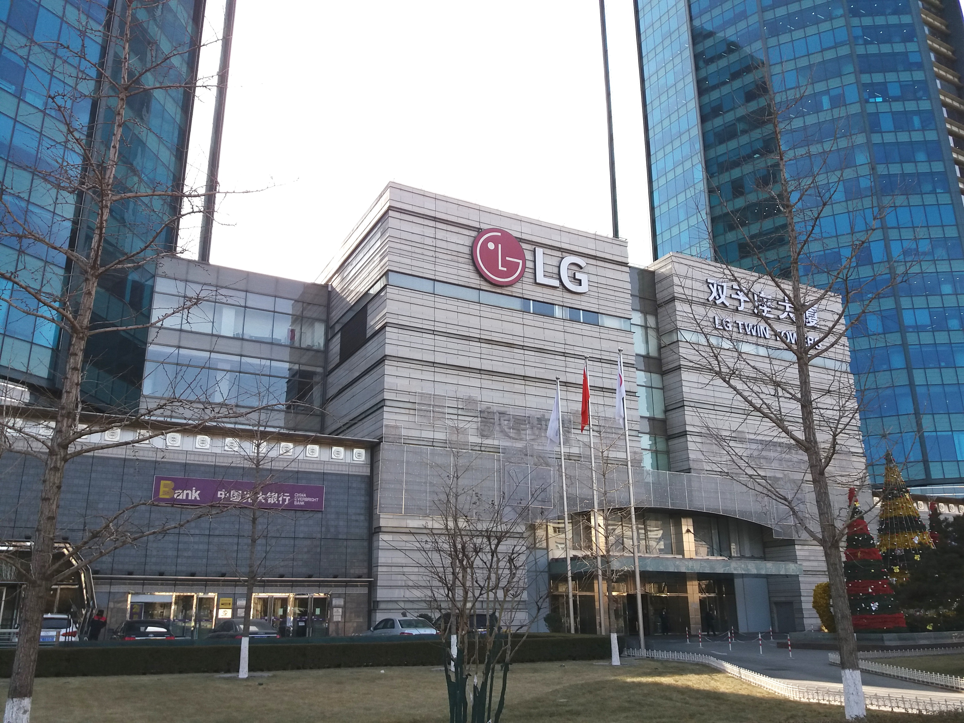 LG Twin Towers,Beijing China